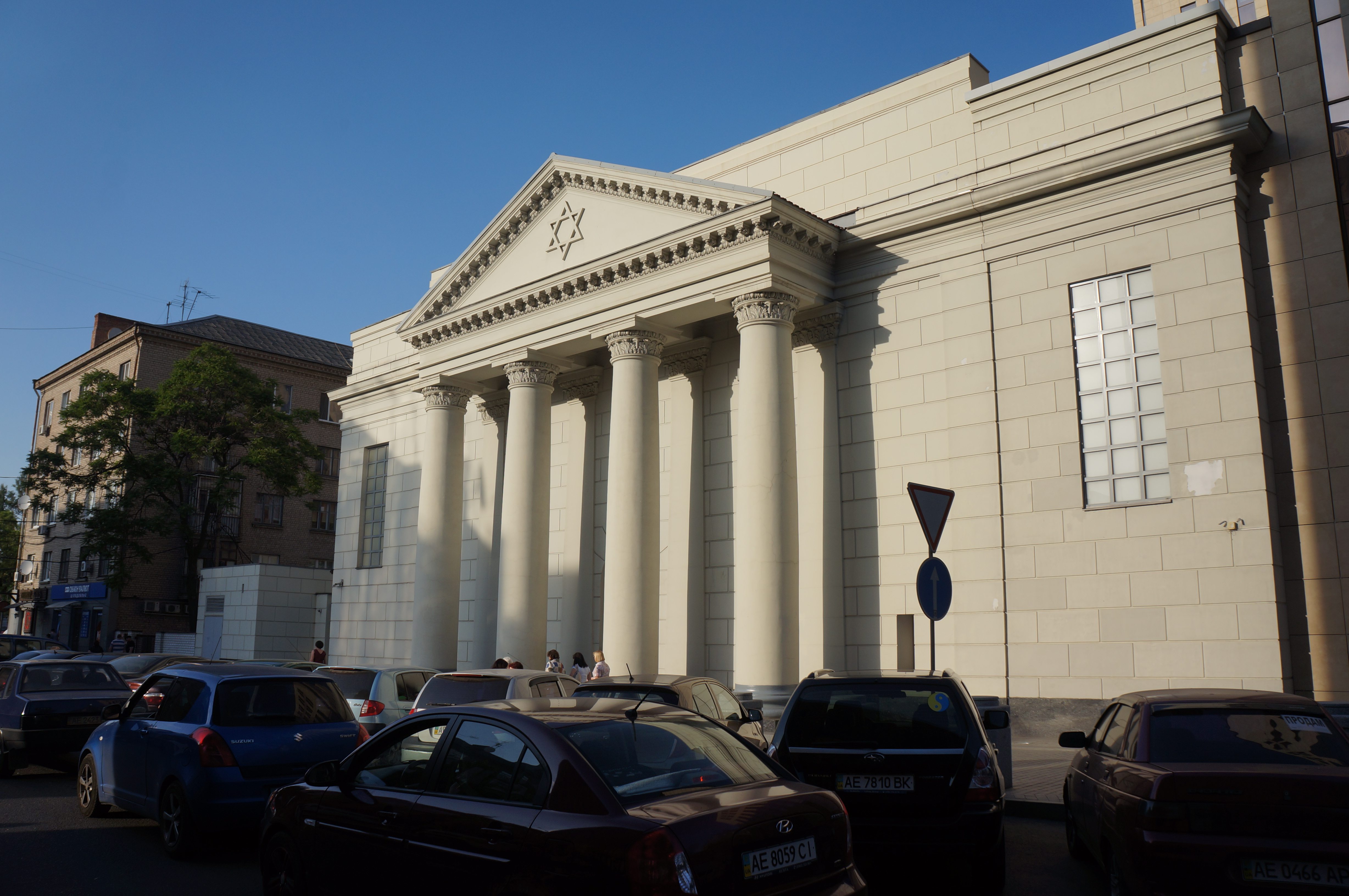 Golden Rose Synagogue